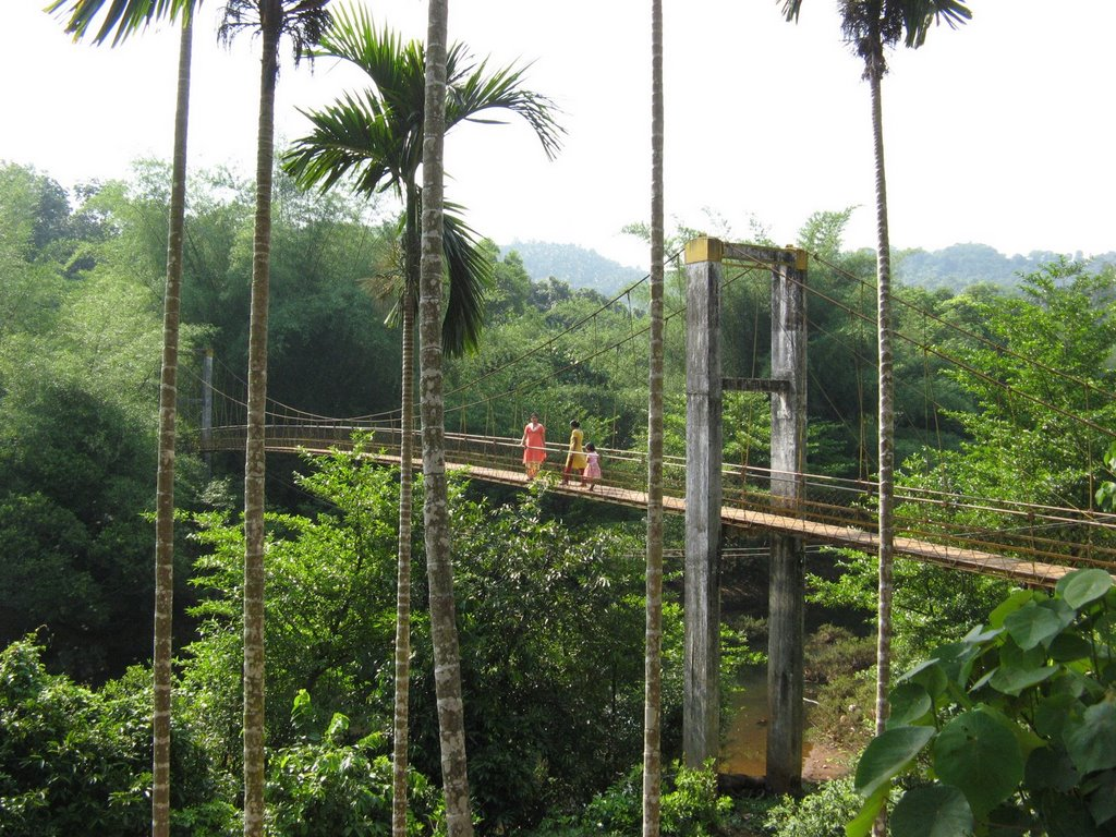 Spring bridge over the bheemanadi river